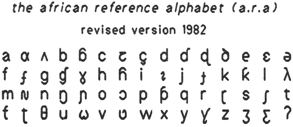 Table of the African reference alphabet, revised version 1982, according to: Mann, Michael, and David Dalby. 1987. A thesaurus of African languages: A classified and annotated inventory of the spoken languages of Africa with an appendix on their written representation. London: Hans Zell Publishers. ISBN 0-905450-24-8, page 207 Based on a scan table 4 from there, the excessive whitespace between the table columns was reduced.